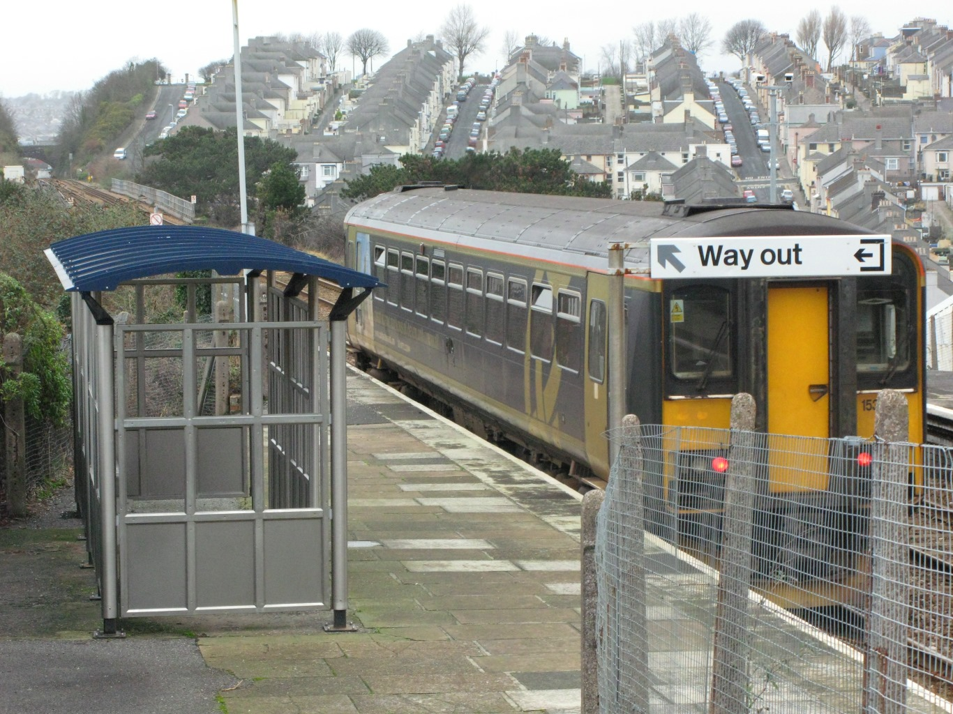 First Great Western DMU 153380 in Devon and Cornwall Rail Partnership livery pulls away from Dockyard station in Plymouth with a train on the Tamar Valley Line to Gunnislake.